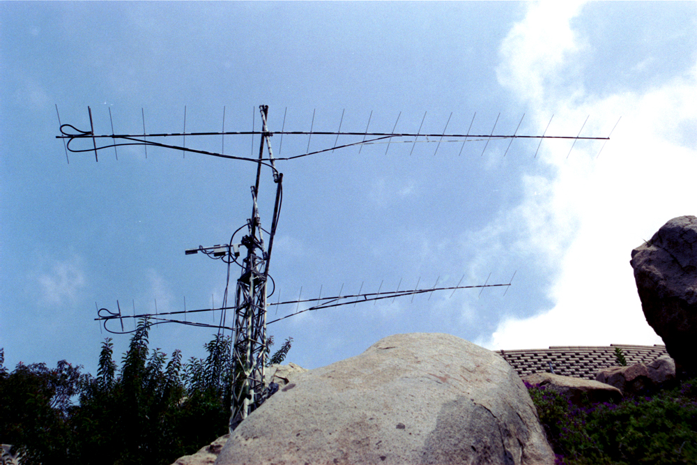 Two long Yagi antennas for 144 MHz used for Moonbounce communication (EME). Photograph taken in California at WA6PY.